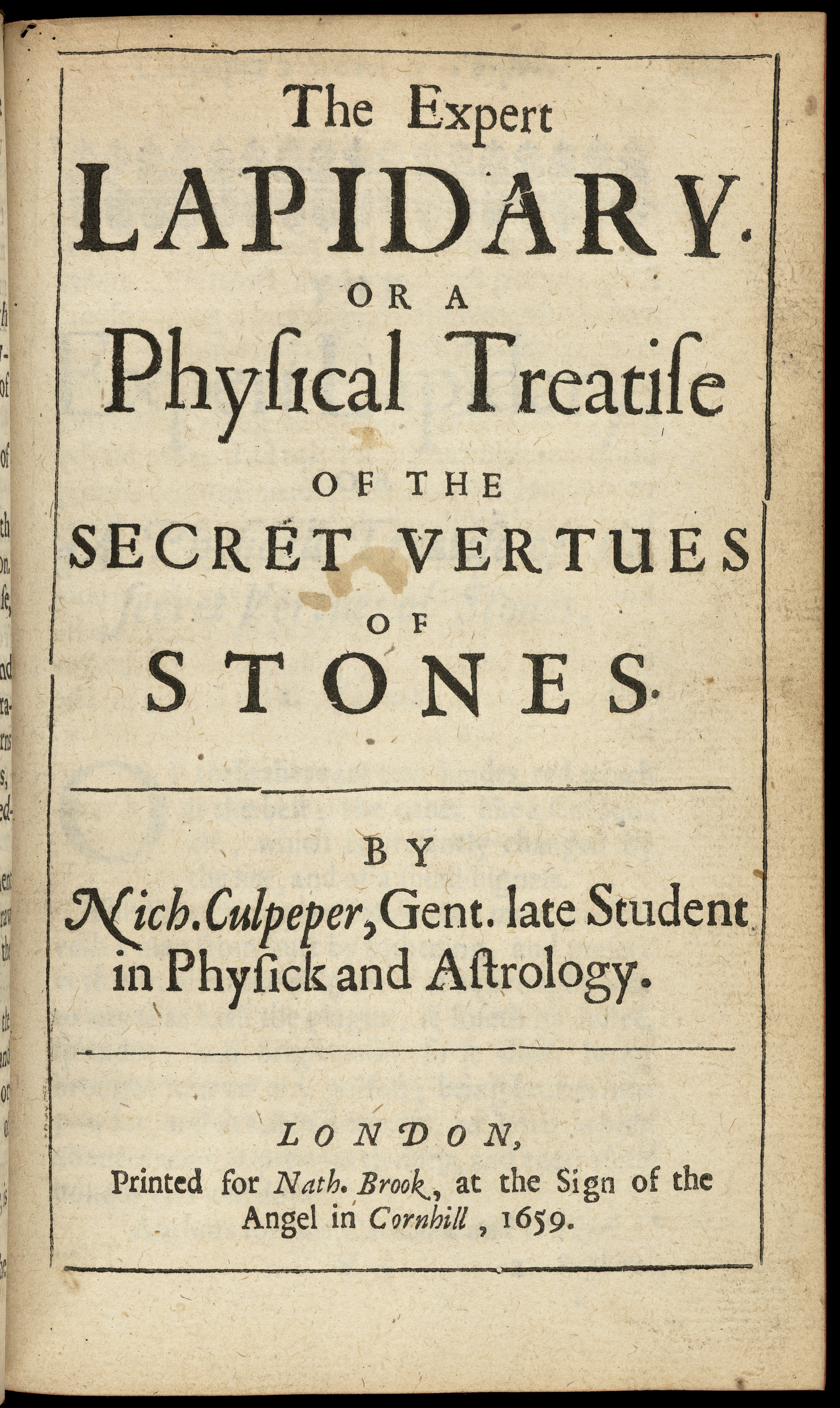 Titlepage: 'The Expert Lapidary' Rare Books